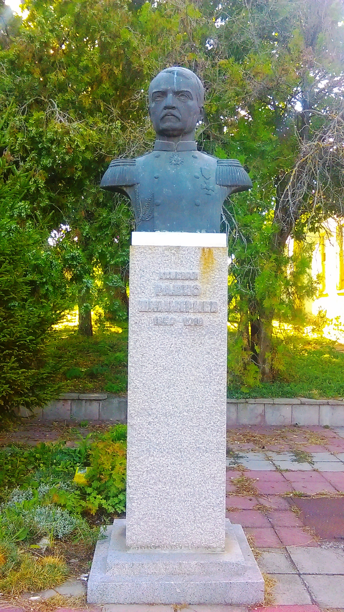 Radko Dimitriev memorial in Radko Dimitrievo, Shumen province, Bulgaria